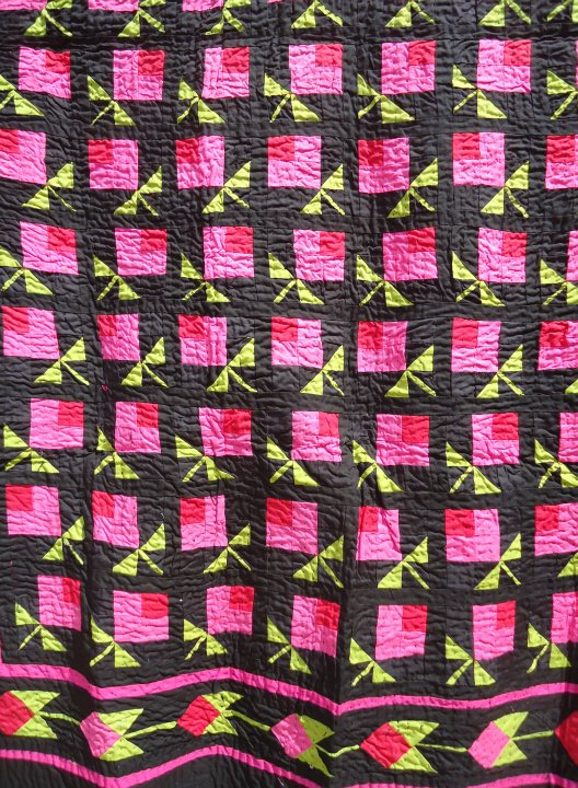 This is my own work. we call this sheet RALLI/RILLI in sindhi language.I made this RILLI in 2007, photo is captured by me.